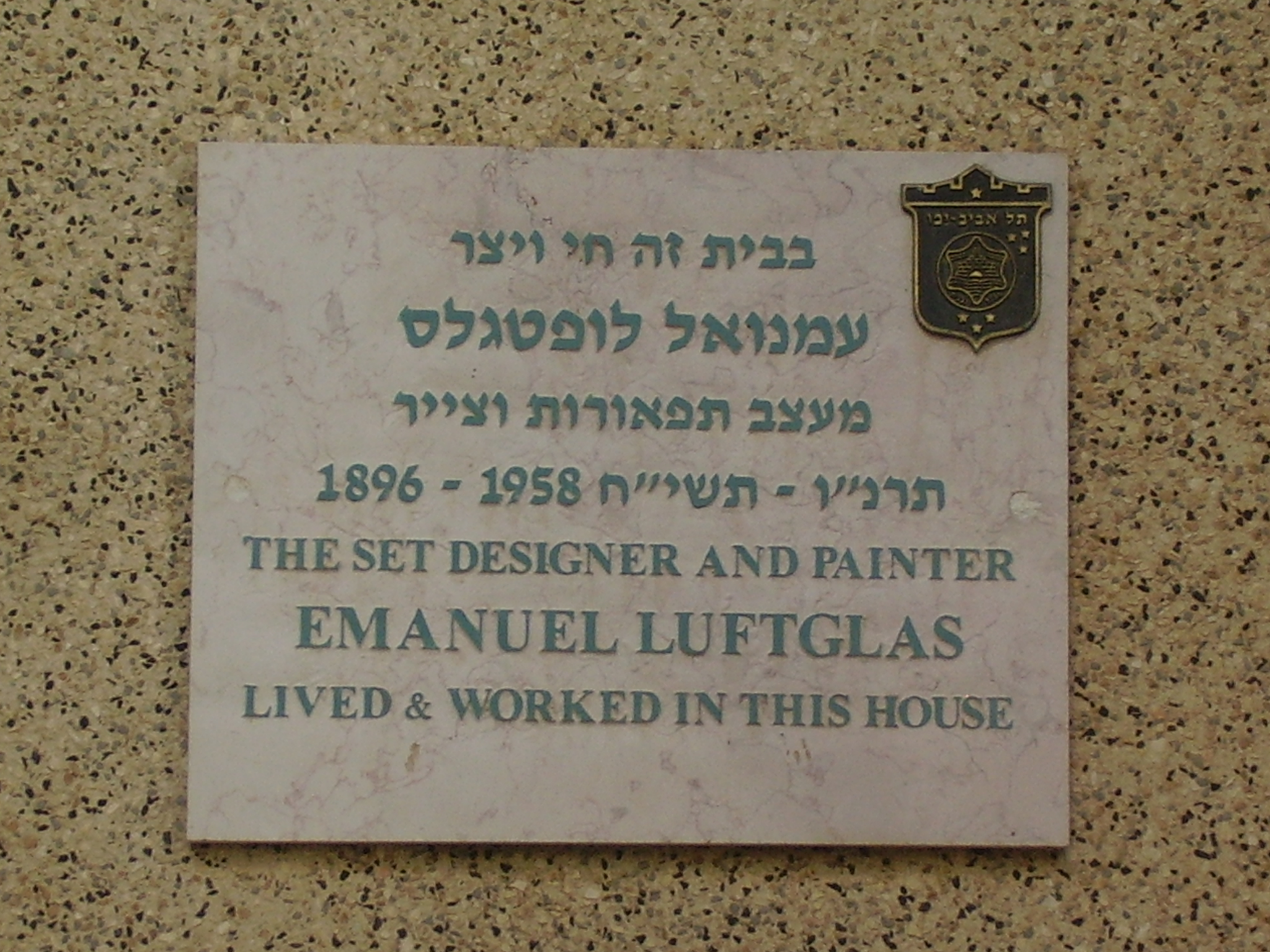 Memorial to the painter and set designer Emanuel Luftglas in Tel Aviv